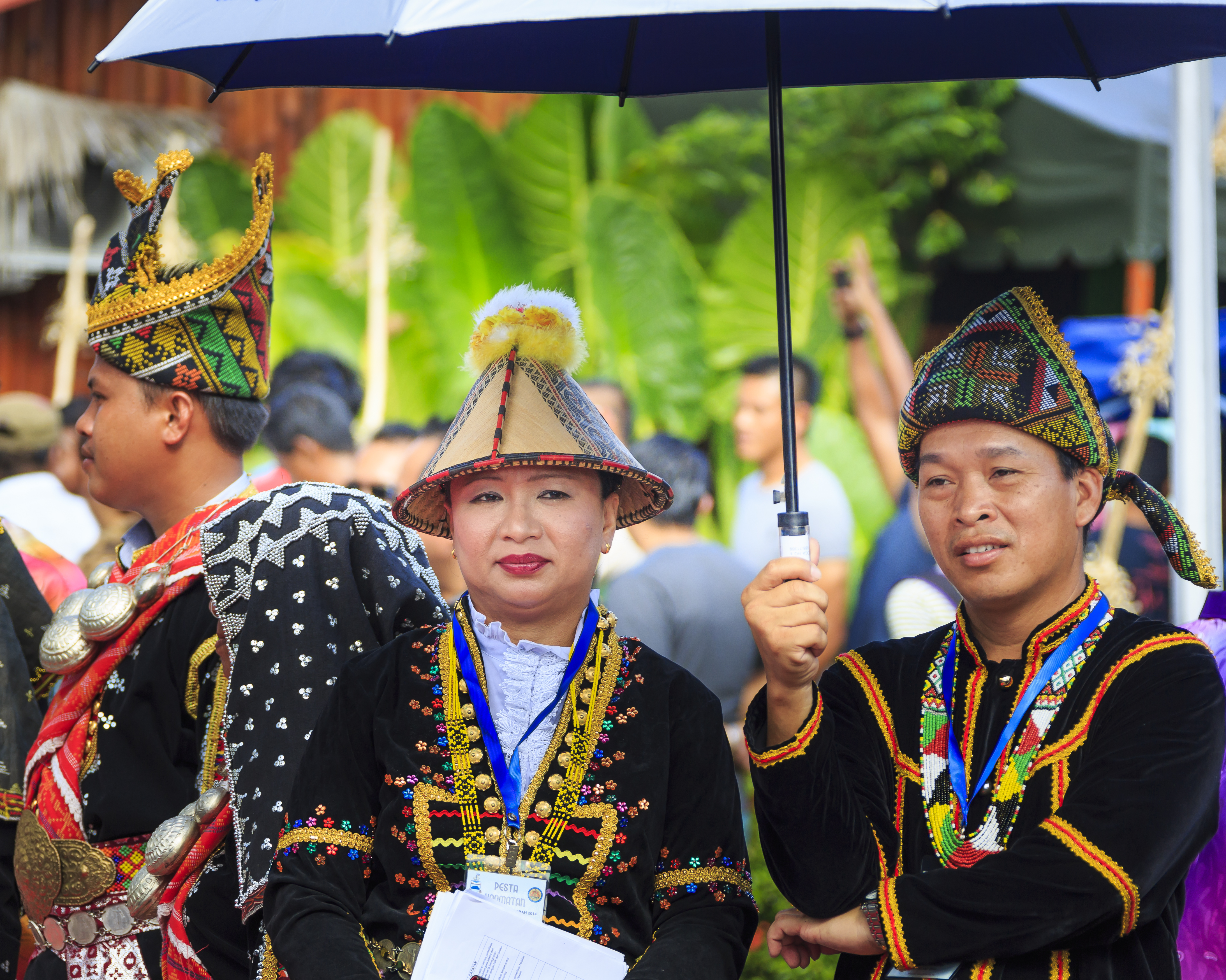 Penampang, Sabah: Members of the Dusun people during Kaamatan 2014